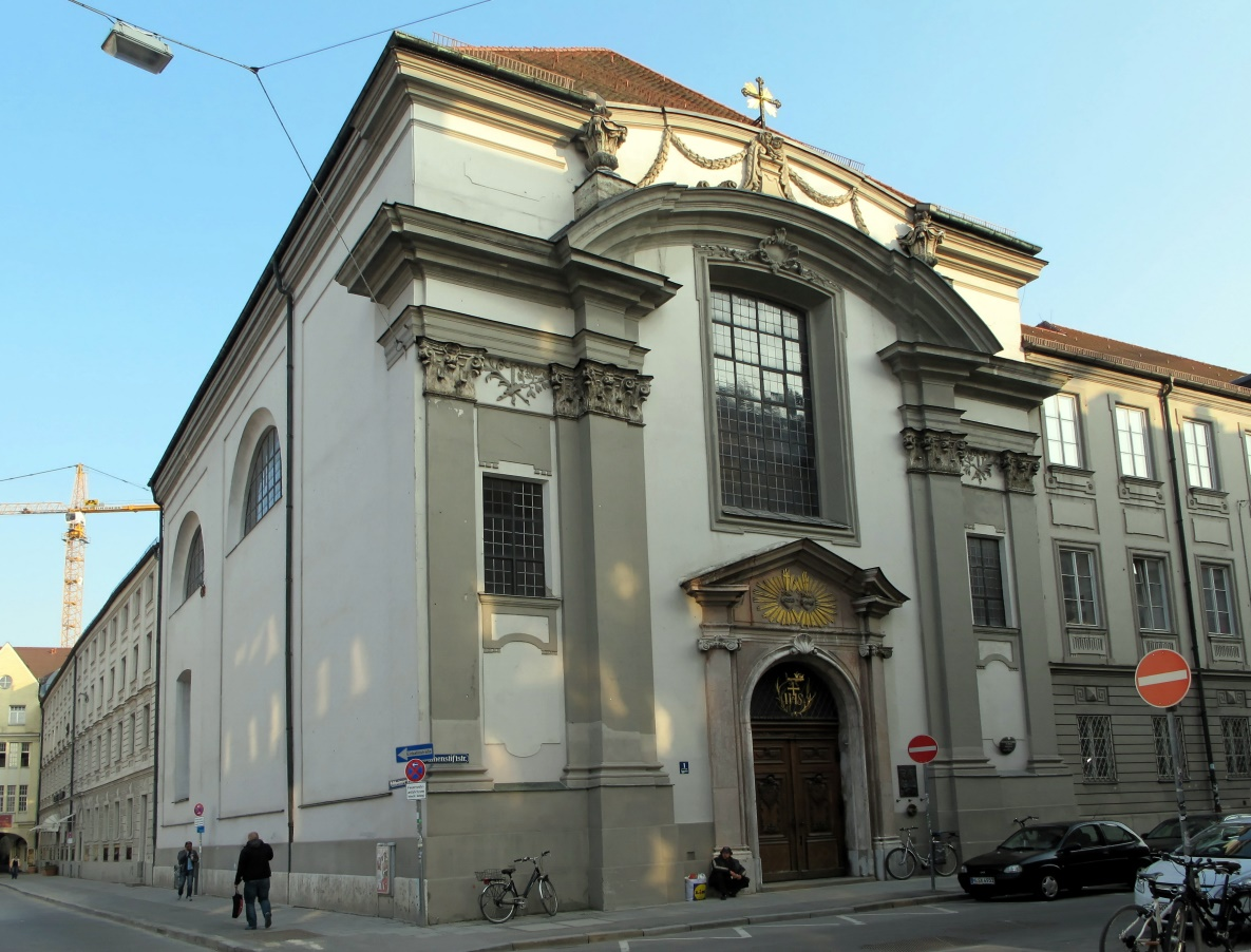 Munich, Curch "Damenstiftskirche St. Anna "